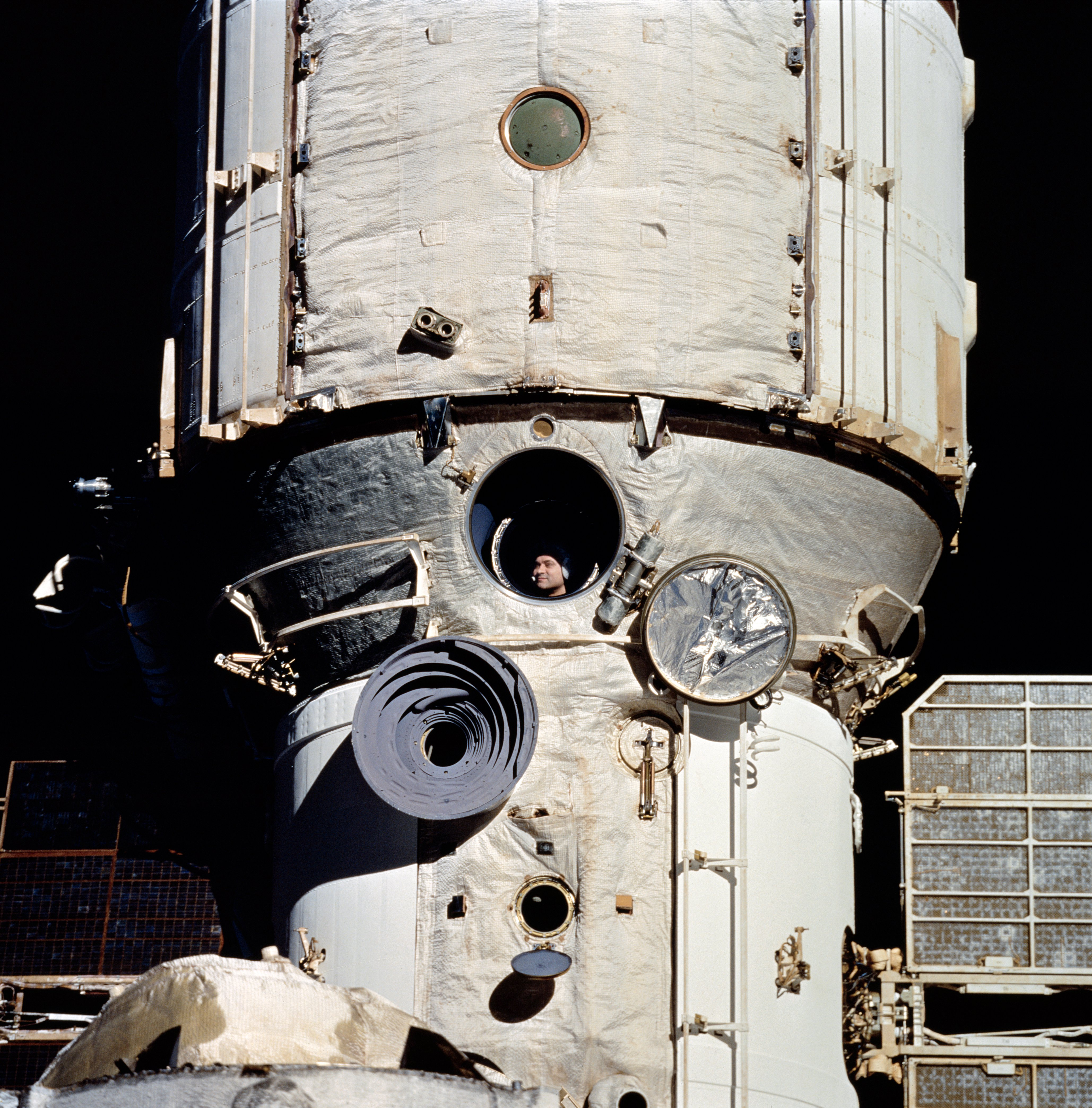 Cosmonaut Valeriy V. Polyakov, who boarded Russia's Mir space station on January 8, 1994, looks out Mir's window during rendezvous operations with the Space Shuttle Discovery.